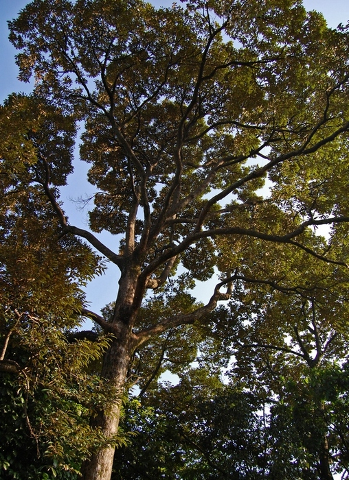 Durian (Durio zibethinus) tree crown and branching. Cimahpar, Bogor, West Java, Indonesia.